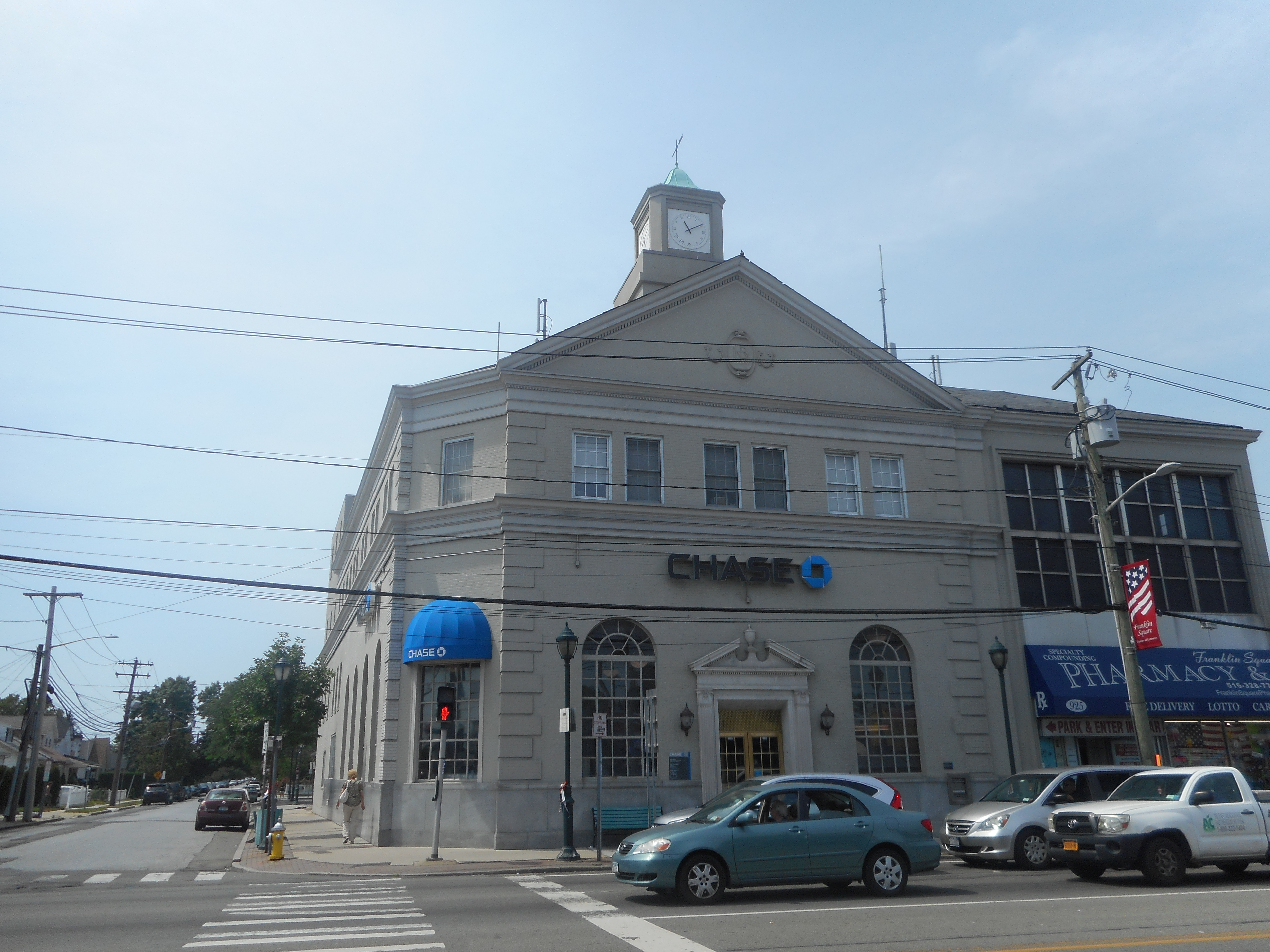 The NRHP-listed Franklin National Bank, on the southwest corner of Hempstead Turnpike (NY 24) and James Street, in Franklin Square, New York. Currently a Chase Bank branch.